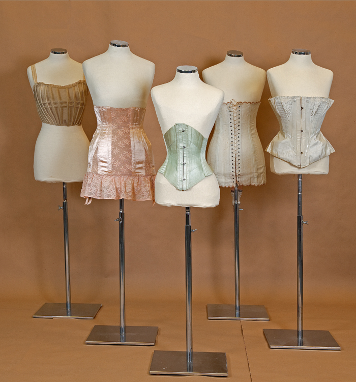 Group of five corsets, late 19th and early 20th century.